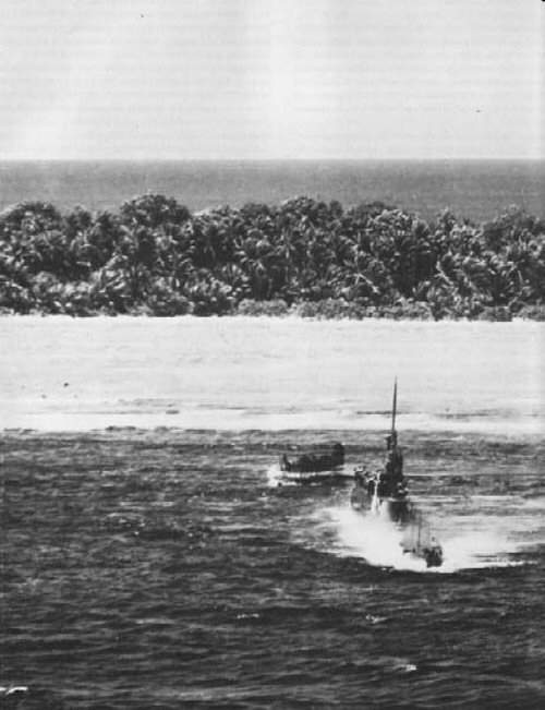 Harder (SS-257) moving dangeroulsy close to shore, as she teams up with a Curtiss SO3C Seagull scout-observation seaplane to rescue Ensign John Gavlin in the face of Japanese gunfire from the trees.